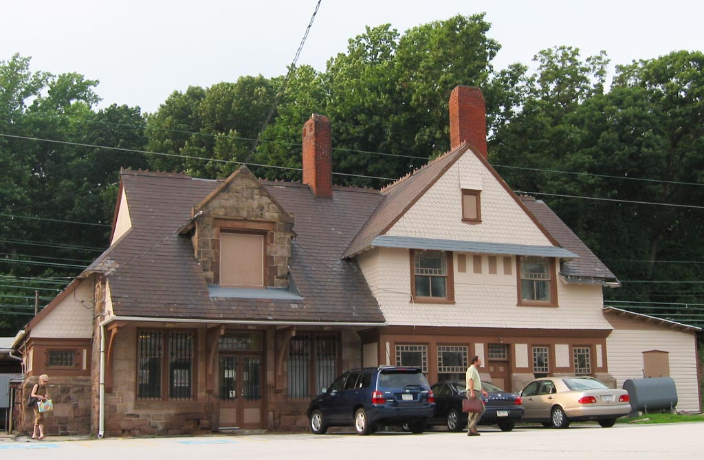 Photo of Devon train station in Devon, Pennsylvania.